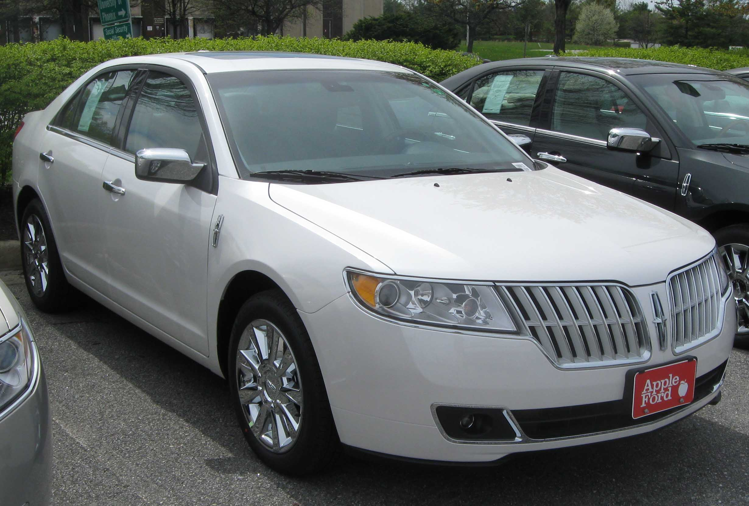 2010 Lincoln MKZ photographed in Columbia, Maryland, USA.